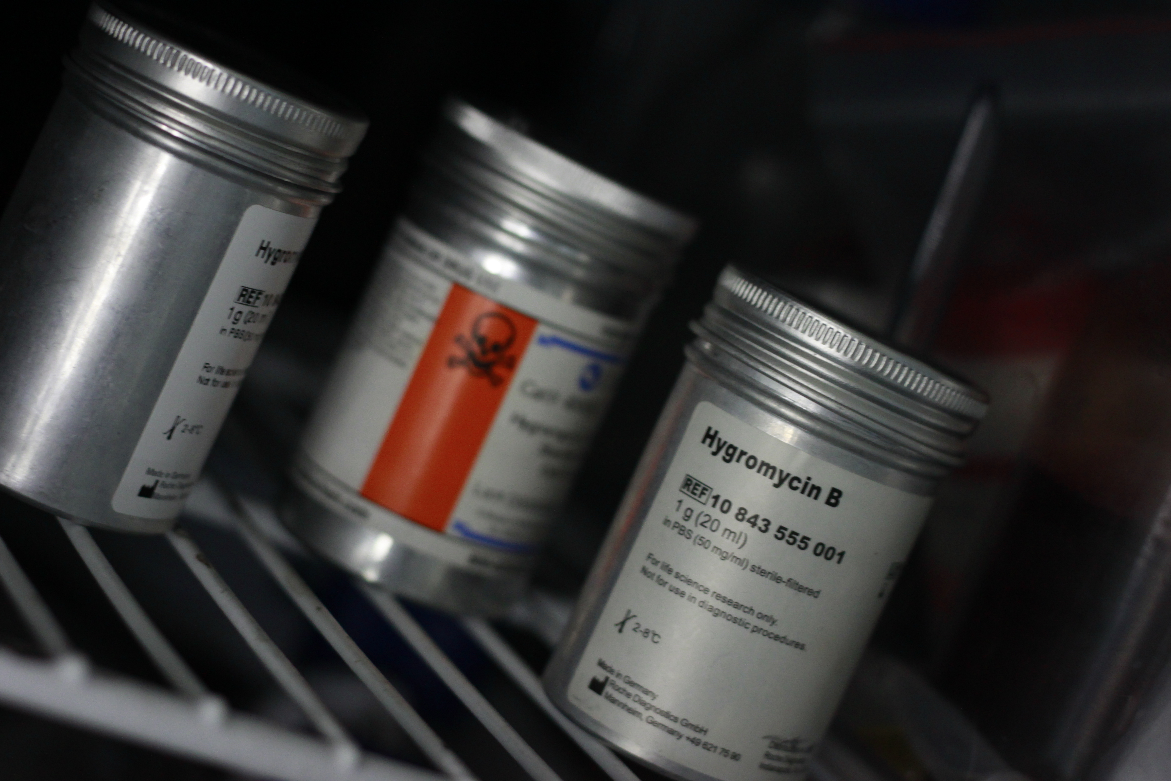 Hygromycin B for laboratory use